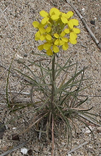 Erysimum insulare ssp. suffrutescens — Santa Monica Mountains National Recreation Area, California.Taken in Point Mugu State Park, at Thornhill Broome Beach. NPS photo, no copyright.